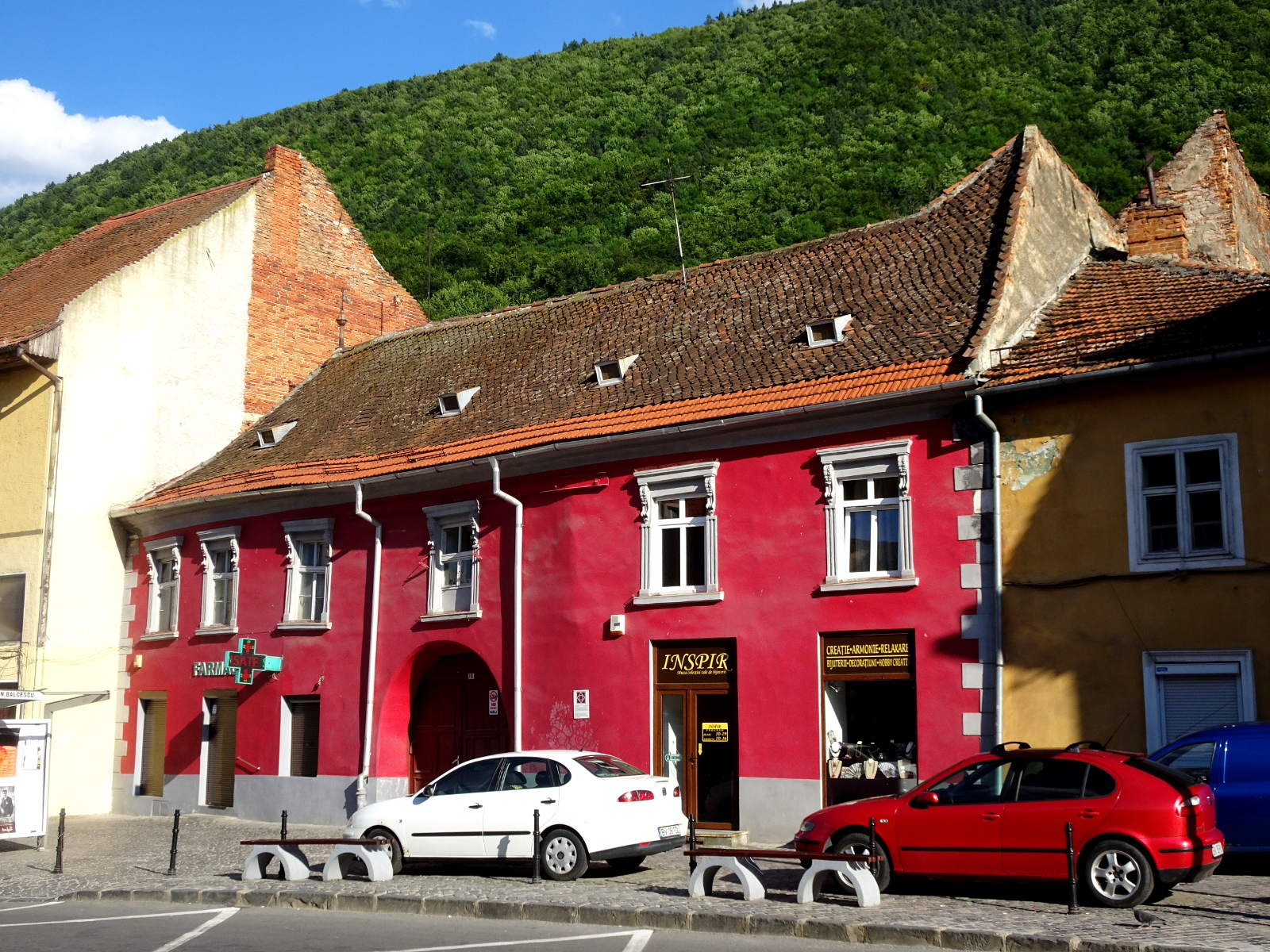 House in Bălcescu street, Brașov